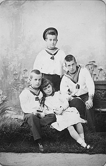 Grand Duke Boris Vladimirovich of Russia with his siblings